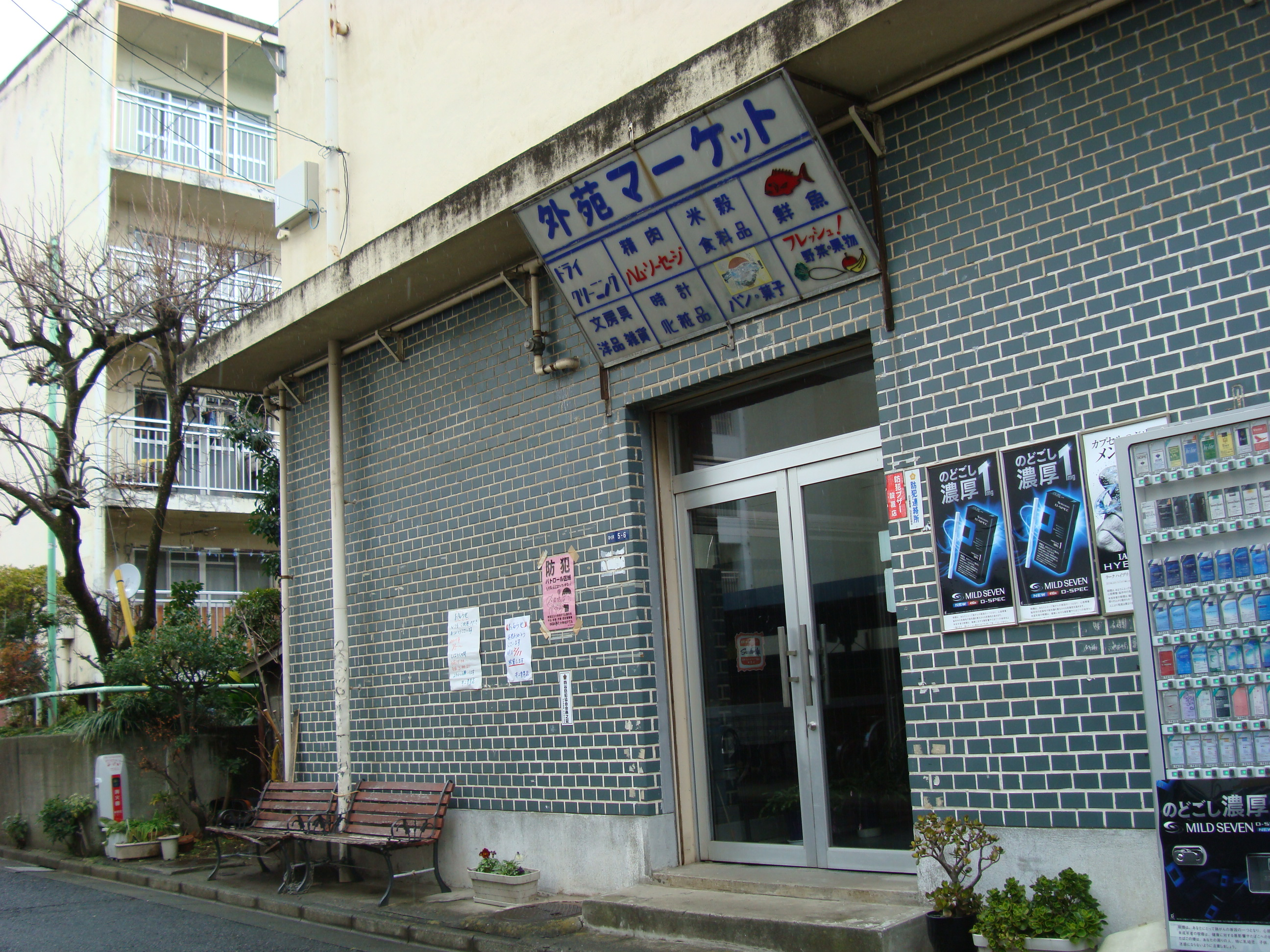 Kasumigaoka Danchi, Shinjuku, Tokyo